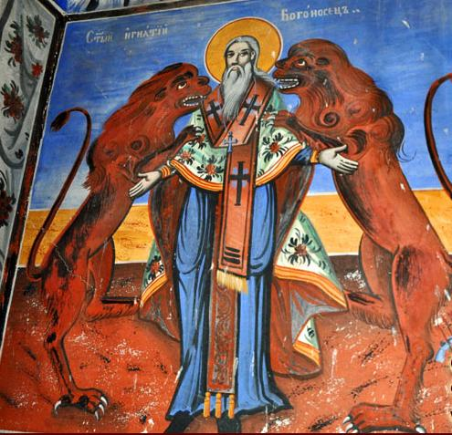 Fresco in St. Elijah Church in Melnica, Macedonia